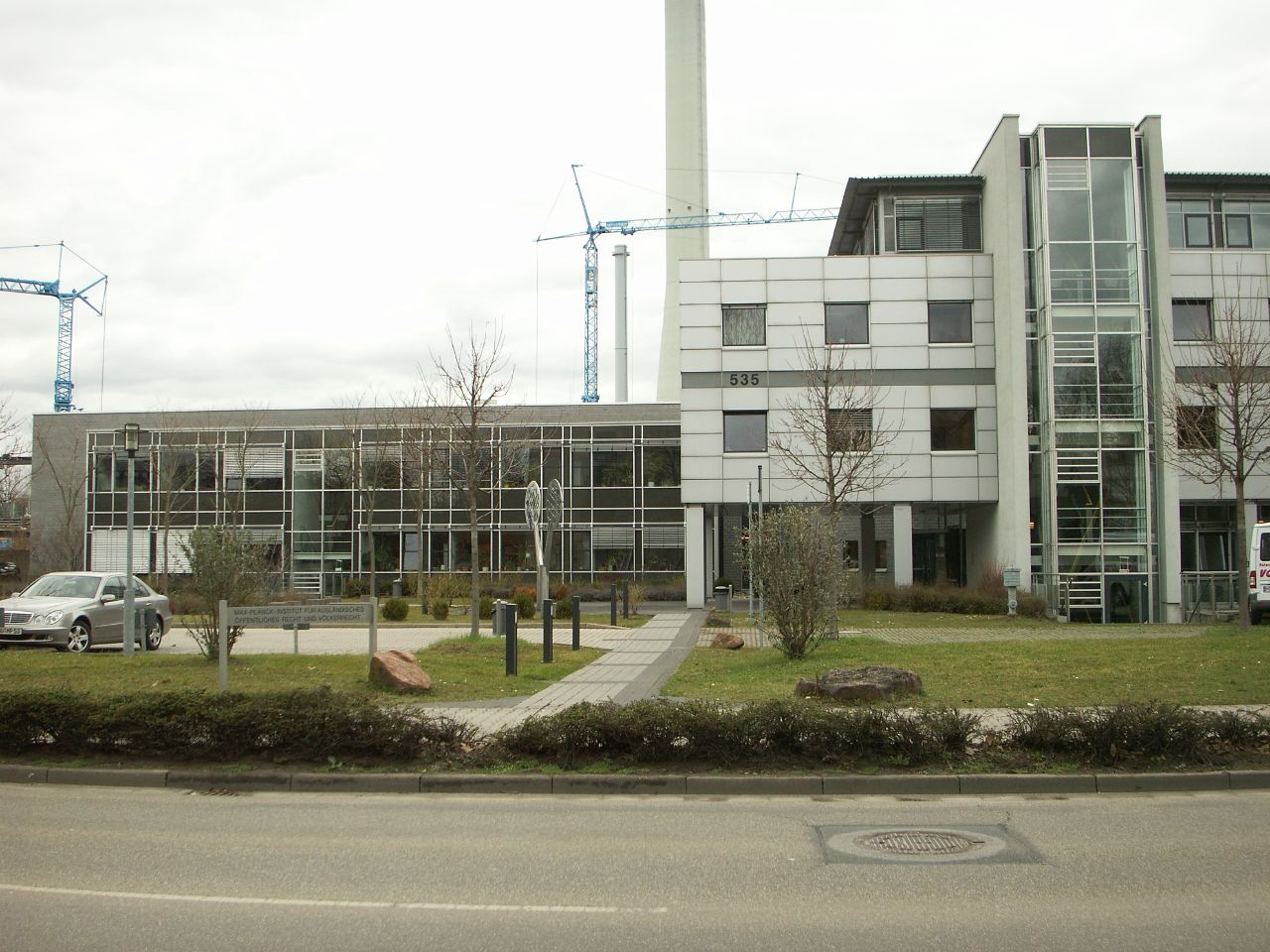 The Max Planck Institute for Comparative Public Law and International Law in Heidelberg, Germany